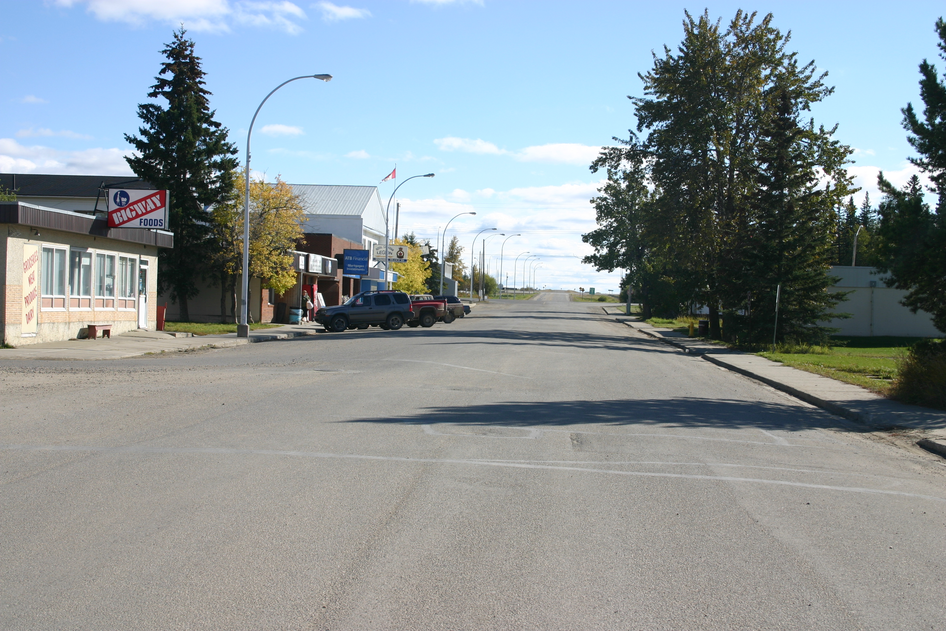 Main Street (looking South) in Wildwood Alberta